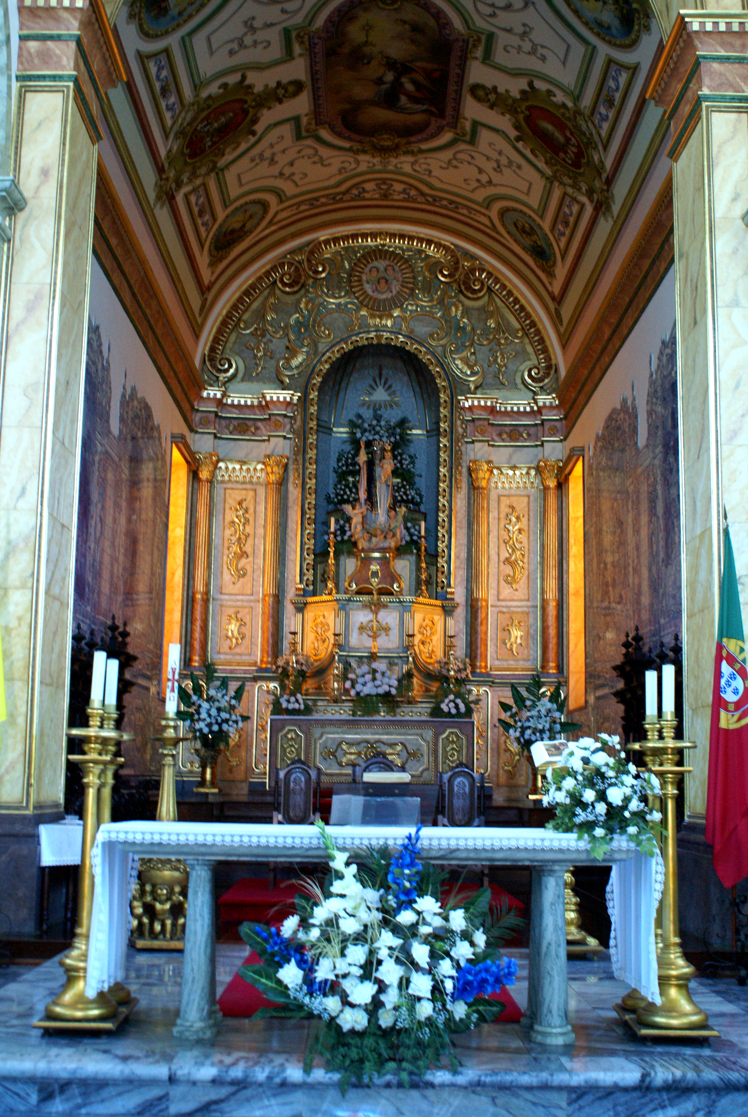 Main alter in the Church of Nossa Senhora Mãe de Deus, Povoação, São Miguel (Azores), Portugal